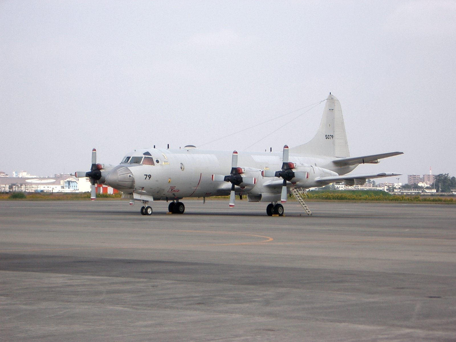 A JMSDF P-3C parked in Atsugi Naval Air Base.